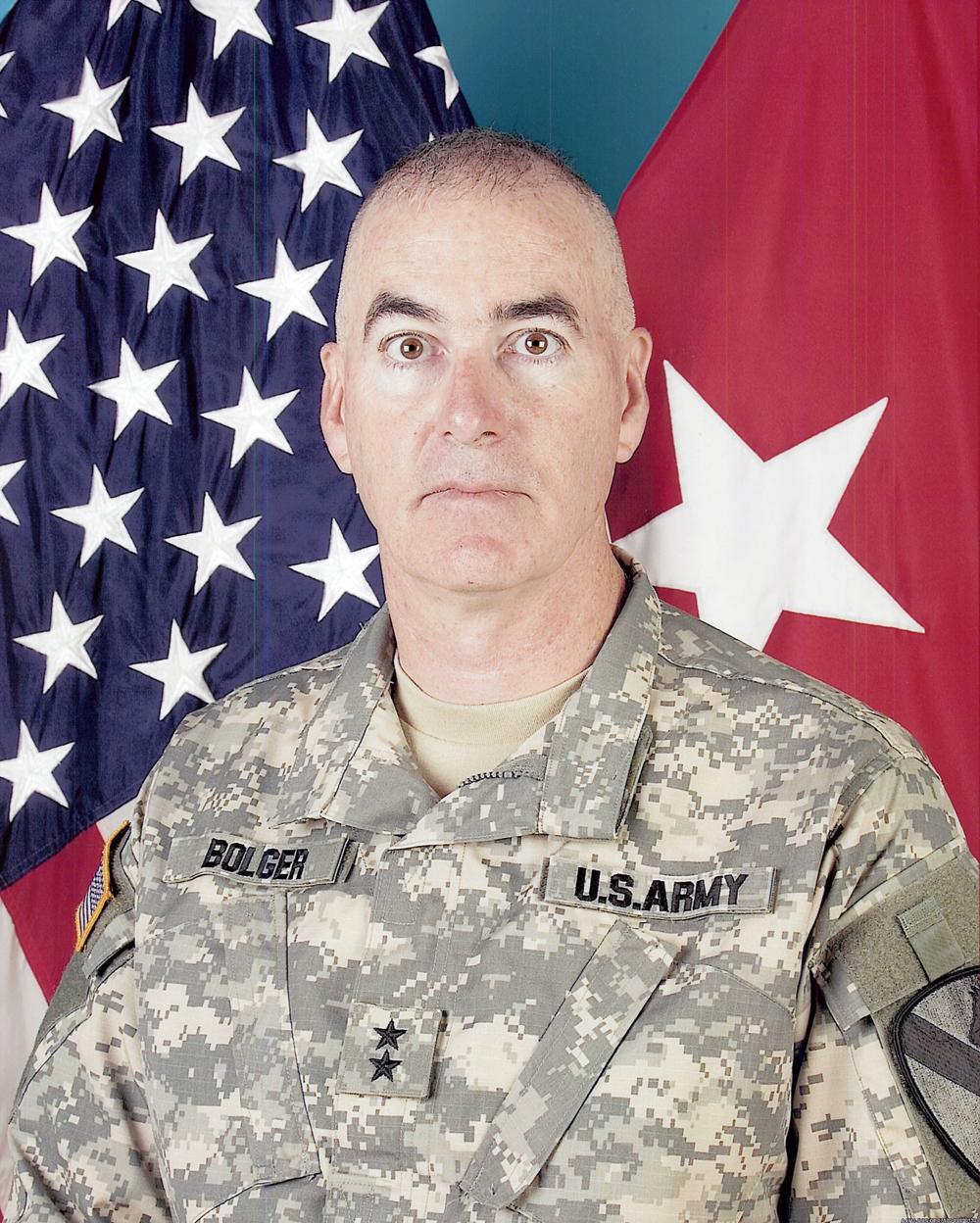 Major General Daniel P. Bolger, United States Army, Commanding General, 1st Cavalry Division